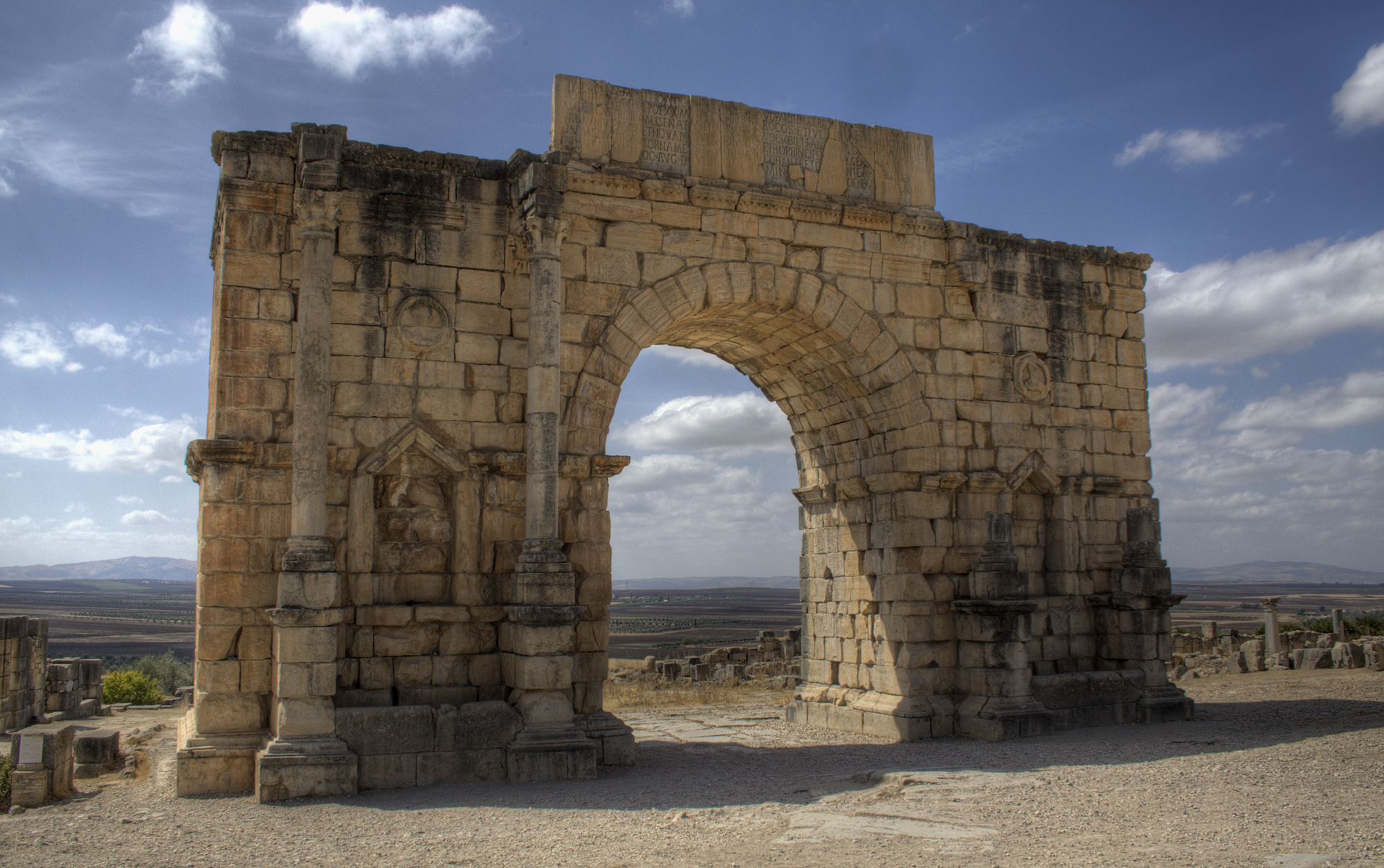 The Arch of Caracalla at Volubilis (looking southwest)